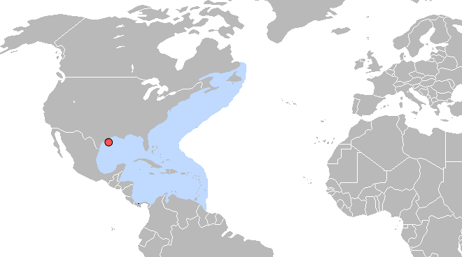 Nesting location of Kemp's Ridley Turtle : red dot = major nesting locations, yellow dot=minor nesting locations Cropped version